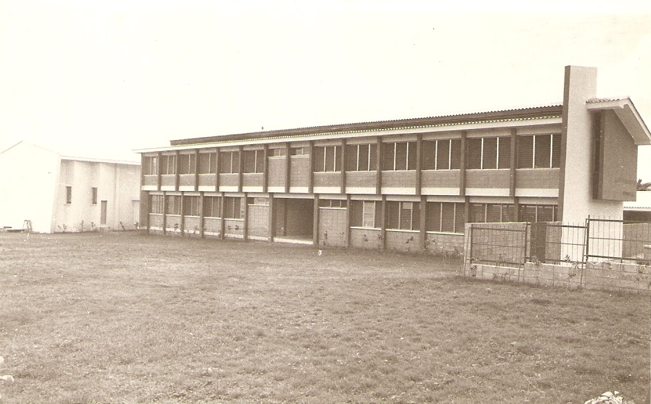 The classrooms and practice rooms building of the Victoriano Lopez School of Music in 1978.